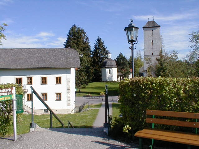 Silent Night Chapel and Museum in Oberndorf, Austria Photograph by Gakuro